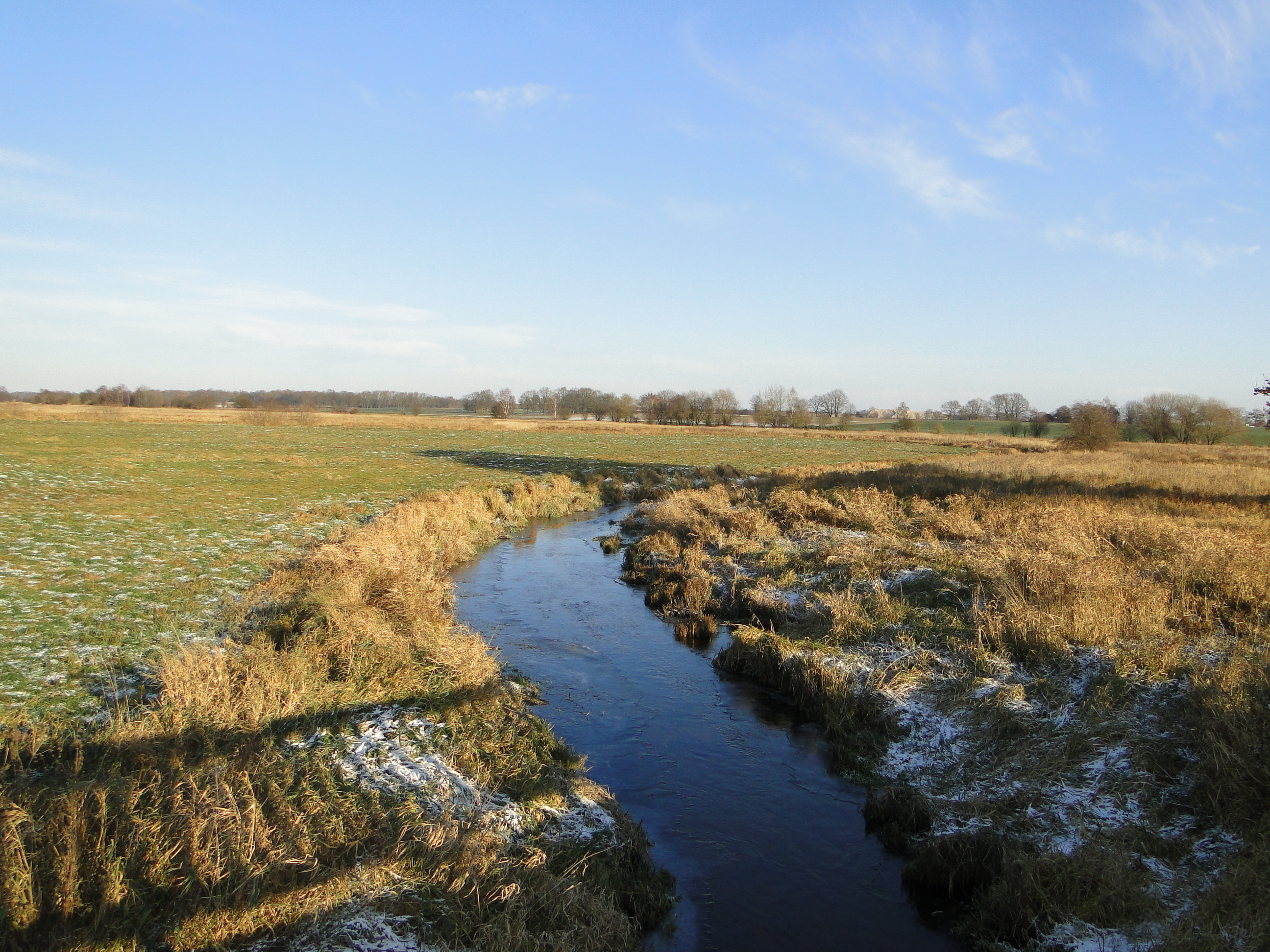 Stecknitz (Delvenau) river and former inner German border between Dalldorf in Schleswig-Holstein and Zweedorf in Mecklenburg-Vorpommern, Germany